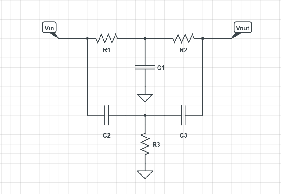 Twin T notch (band stop) fillter